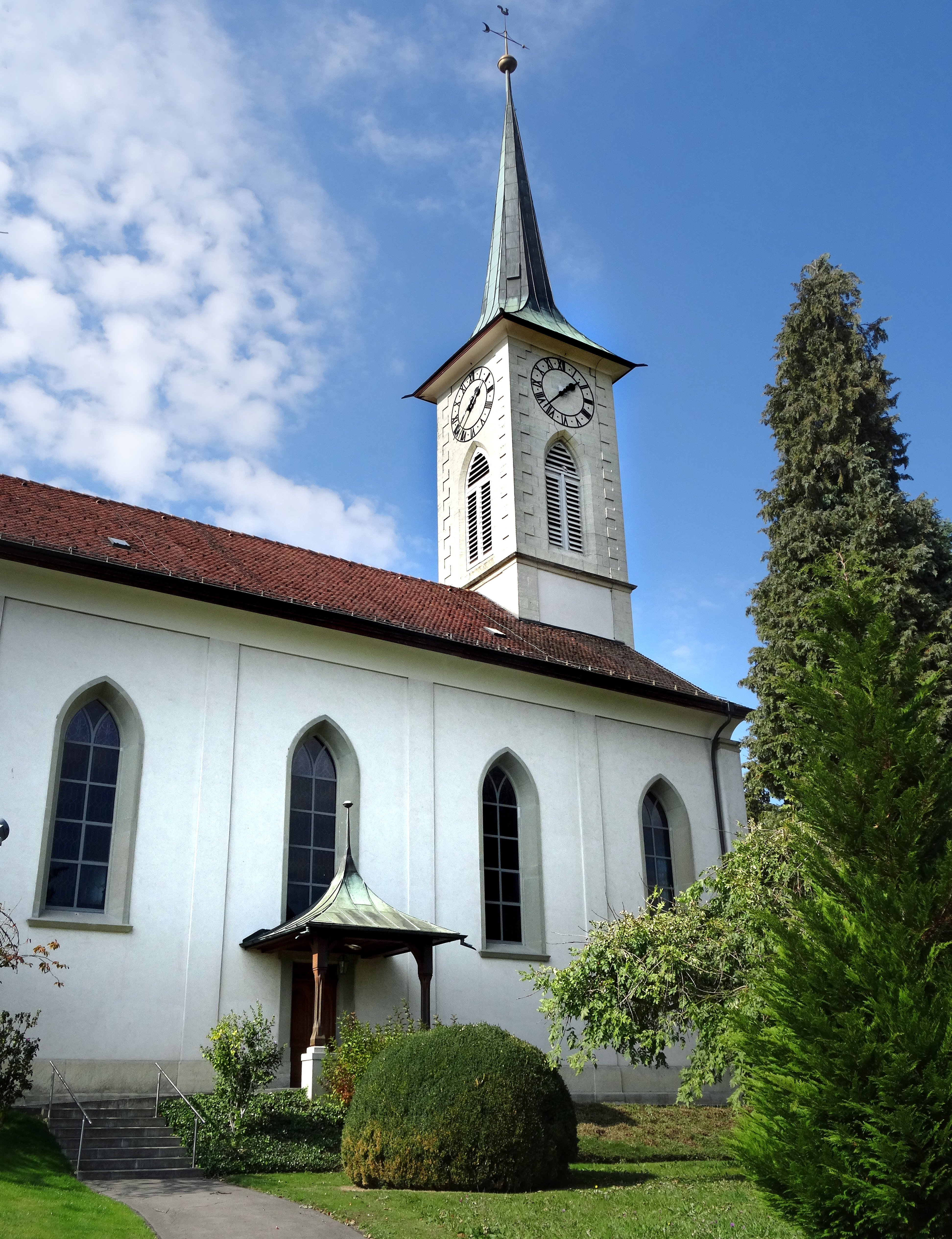 Church in Menziken, Switzerland.